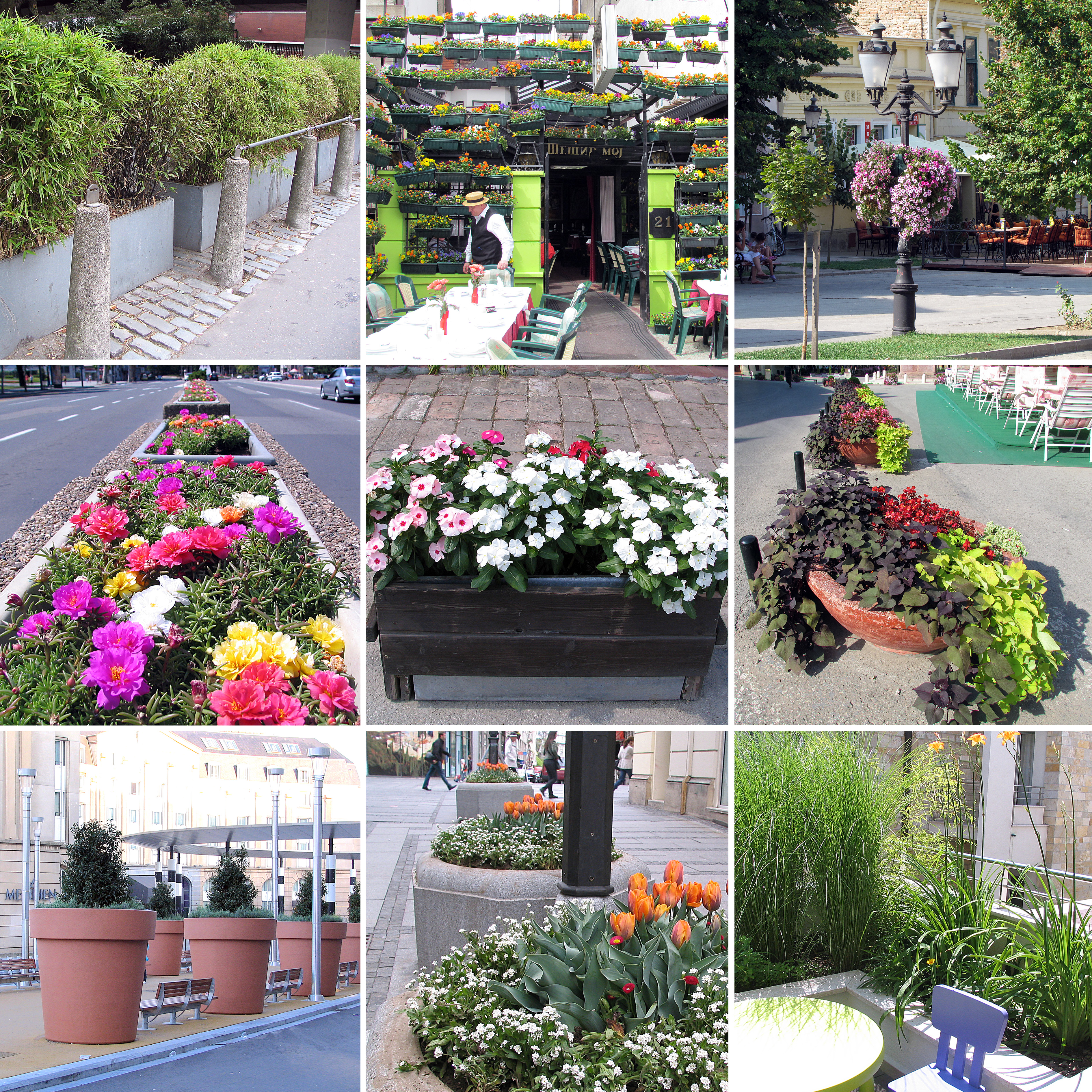 Different types of Jardinières (plant pots)